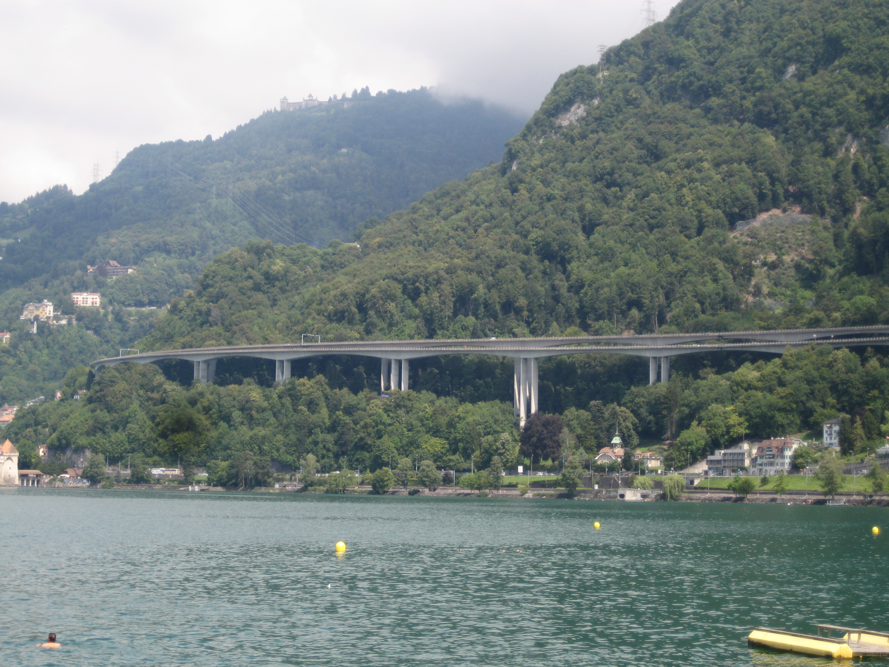 bridge of Chillon, as seen from Villeneuve, Vaud, Switzerland